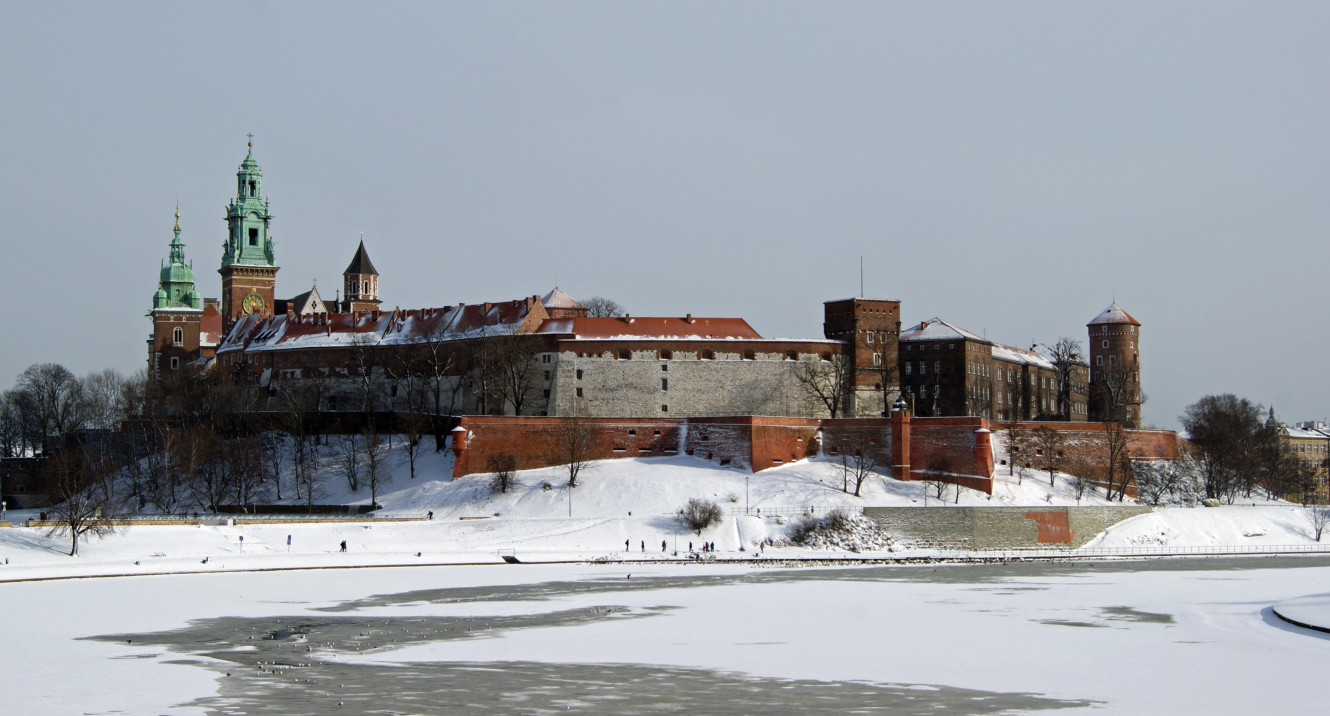 Wawel hill, Old Town, Krakow, Poland